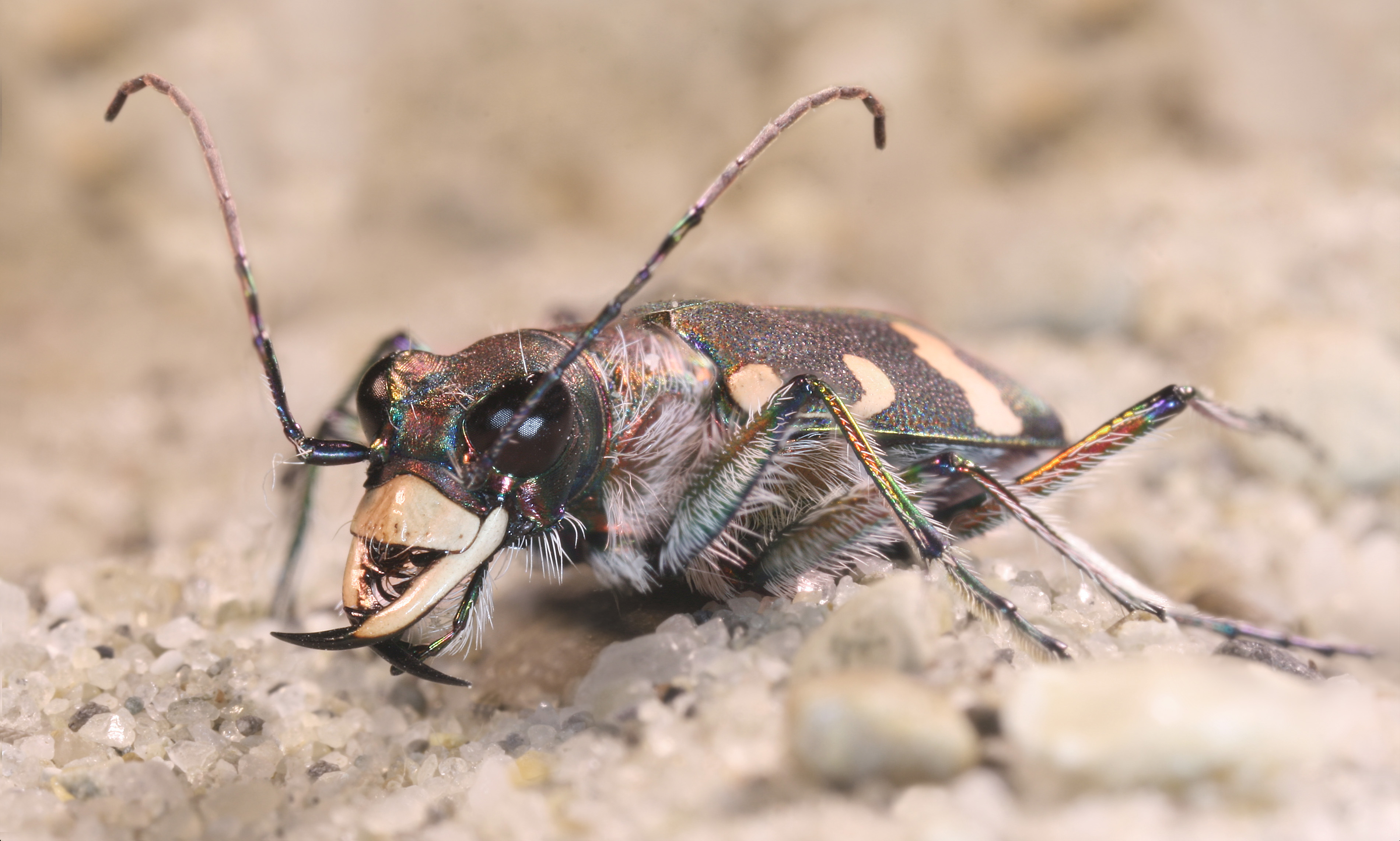 Description: The tiger beetles are a large group of beetles known for their predatory habits. As shown a Sandlaufkäfer 'Cicindela hybrida'